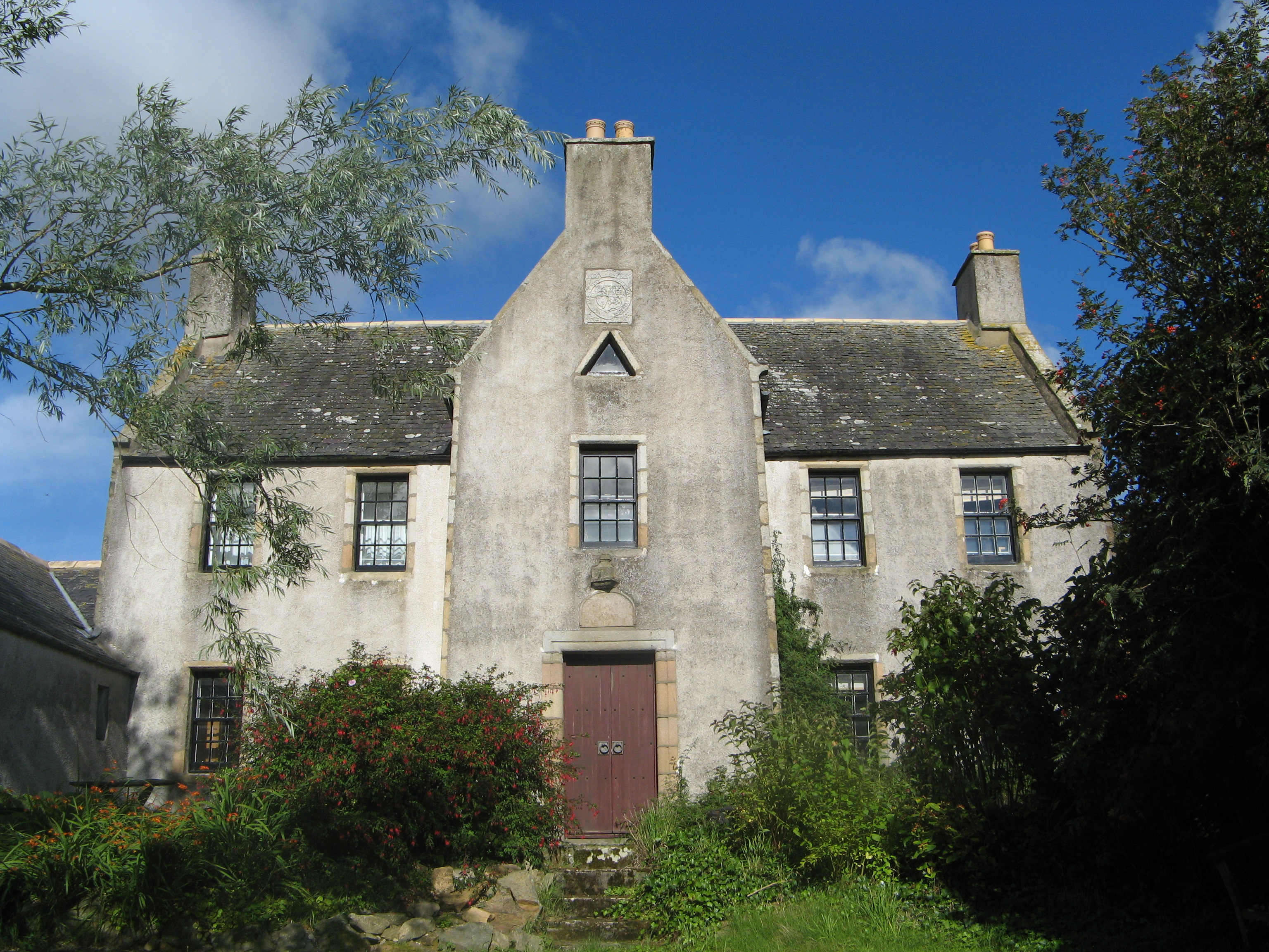 Nether Ardgrain, Farmhouse, front